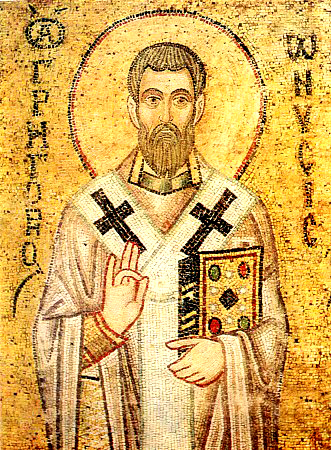 St. Gregory of Nyssa (eastern ortodox icon)